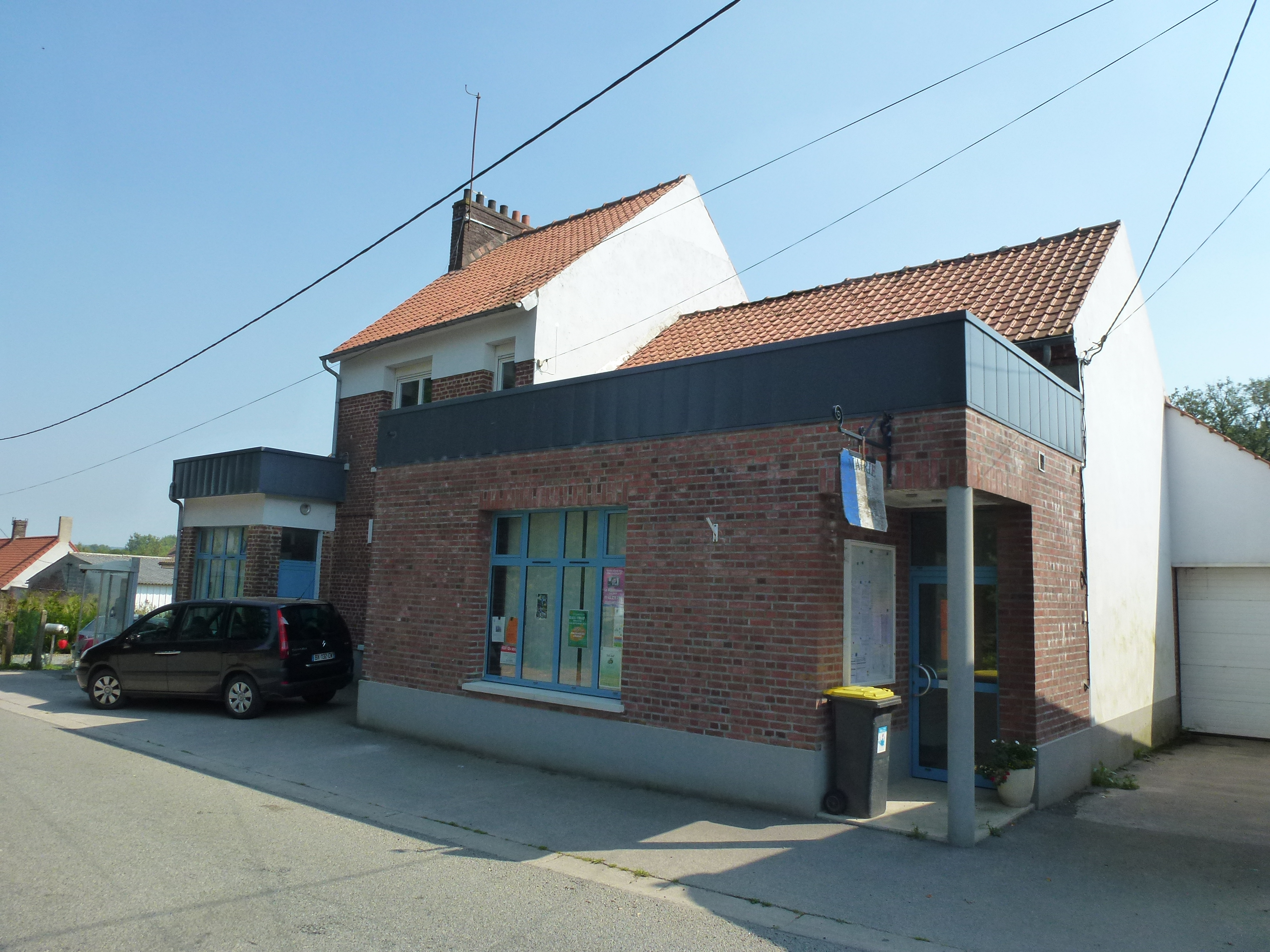 Hocquinghen (Pas-de-Calais) mairie